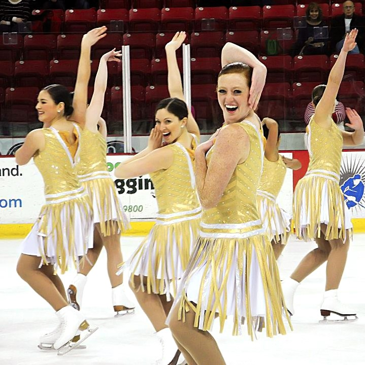 Miami University senior synchronized skating team performs their 2013 free program